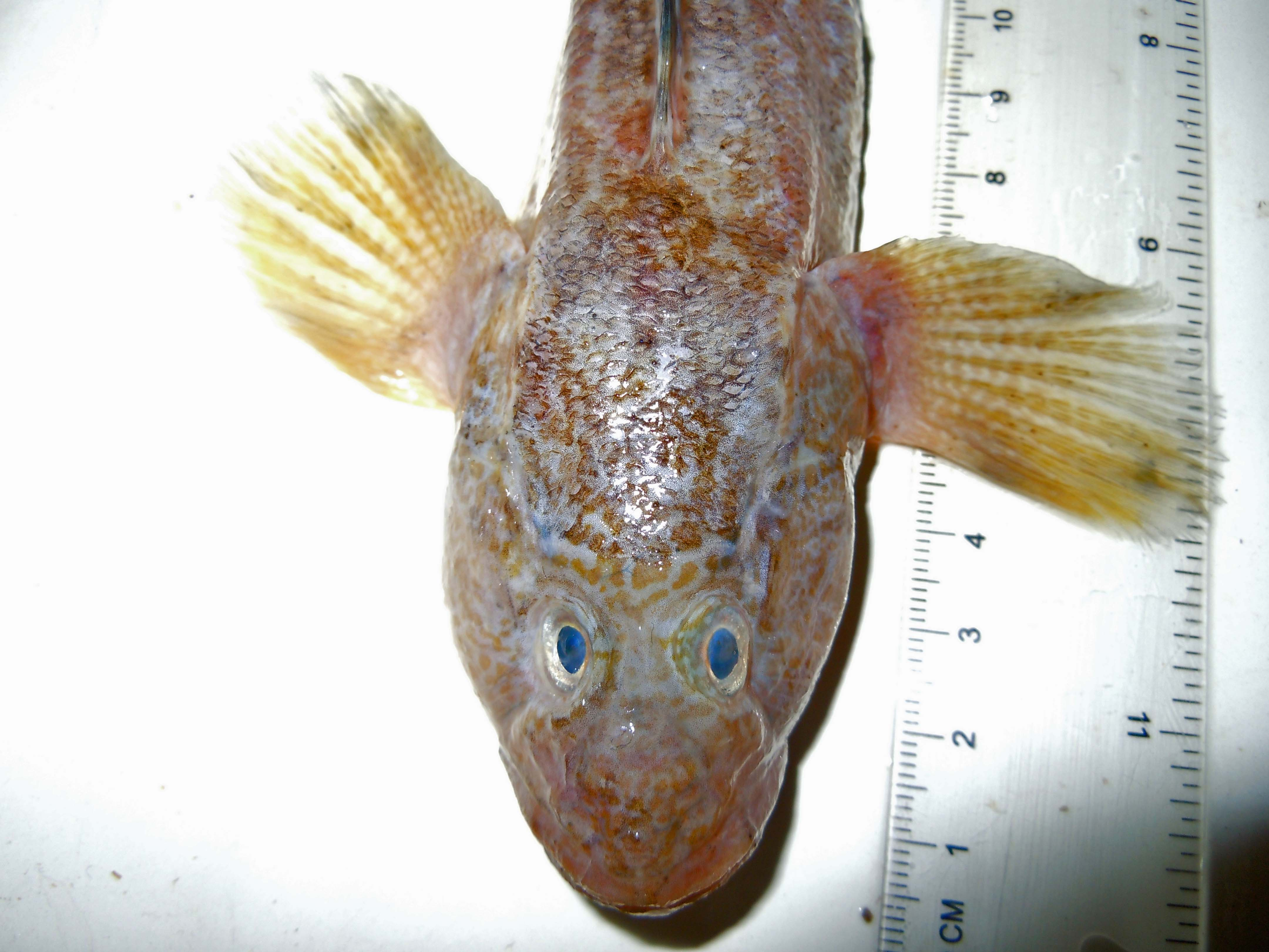 The Syrman Goby (Ponticola syrman) from the Black Sea near Zatoka, Ukraine